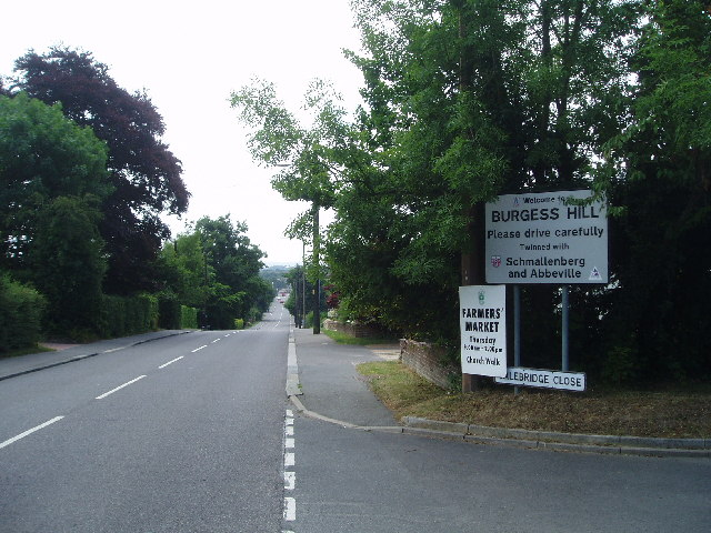 The B2036 looking south into Burgess Hill (Name of image mistyped when uploaded)